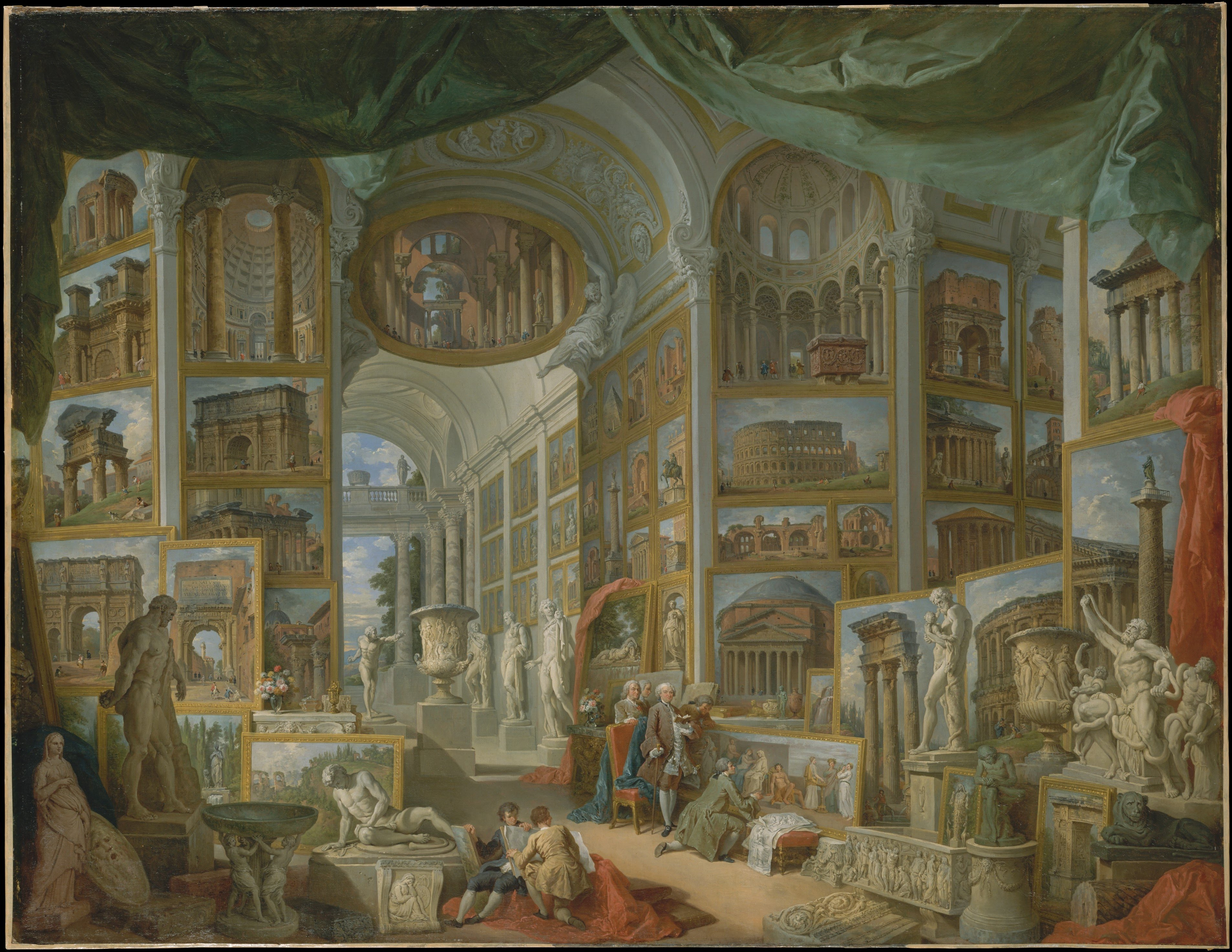 This painting, commissioned by the Count of Stainville (later Duke of Choiseul), depicts the count (at the center with a guidebook in his hand) and friends visiting an imaginary gallery in Rome. The artist Panini is behind the chair.